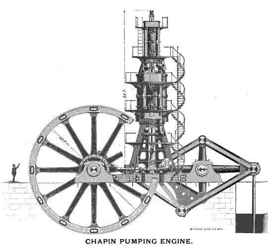 Chapin Mine Pump, constructed by EP Allis Co in 1891